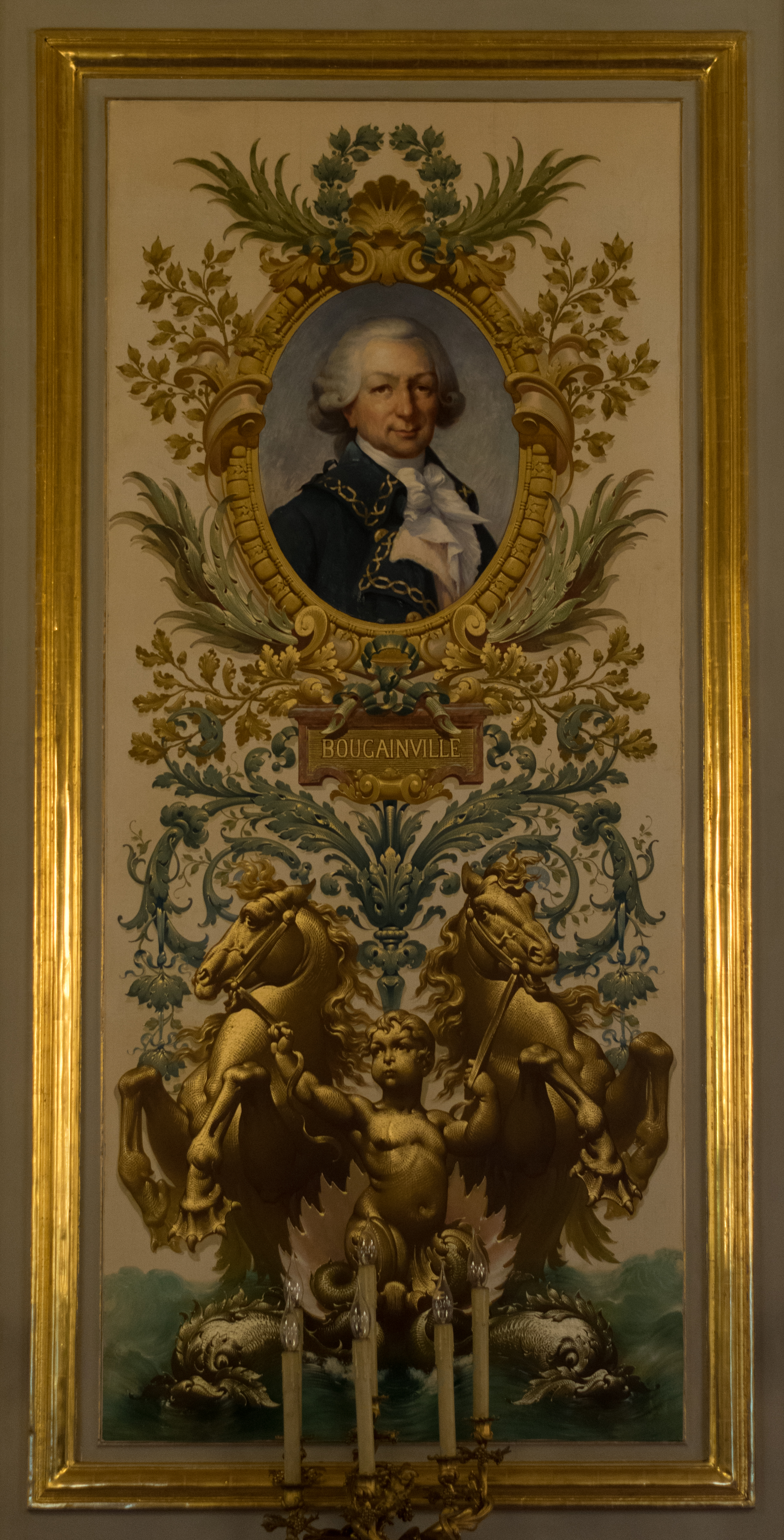 A wall ornament gilded with gold leaf representing Louis Antoine de Bougainville at the Hôtel de la Marine in Paris, France.